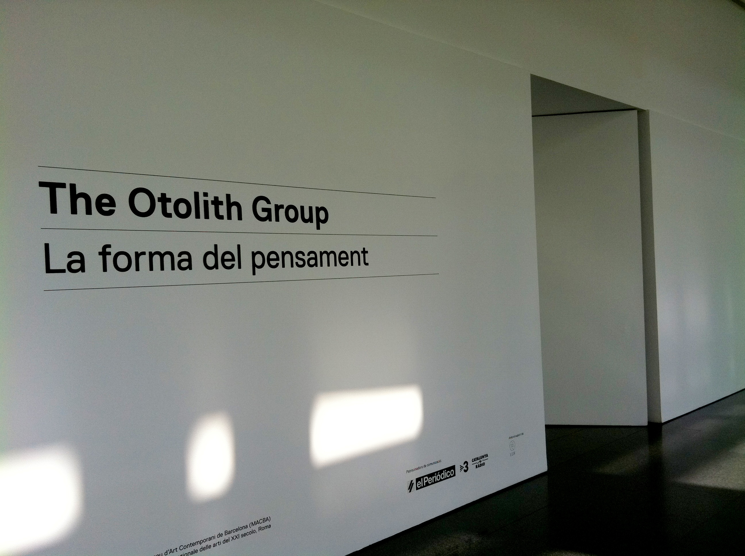 The Otolith Group exhibition at Museu d'Art Contemporani de Barcelona, MACBA, during 2011